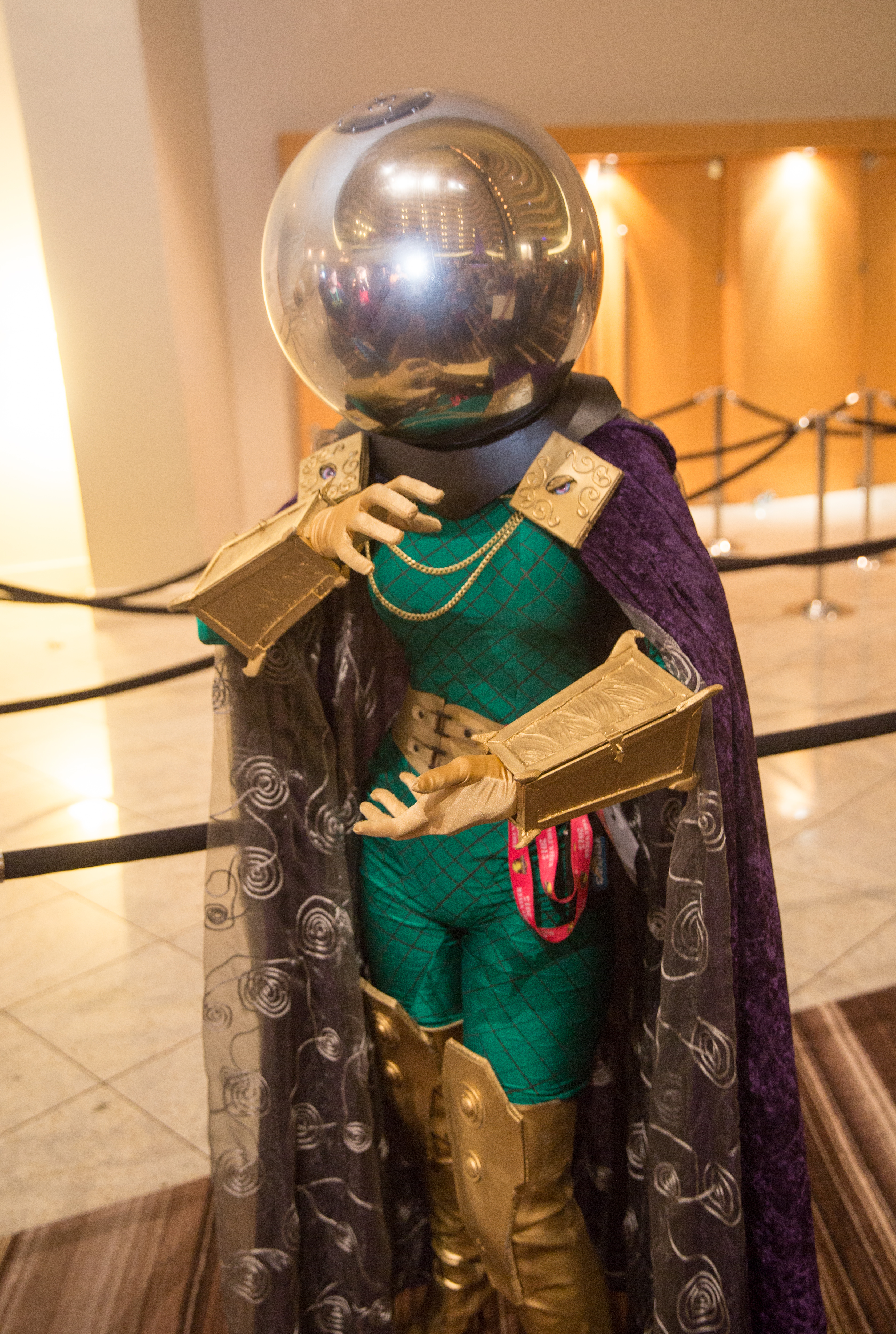 Amazing Spiderman villain, absolutely terrible Daredevil villain. Cosplay at Dragon*Con 2015.